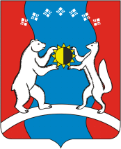 Aldan rayon (Yakutia), coat of arms